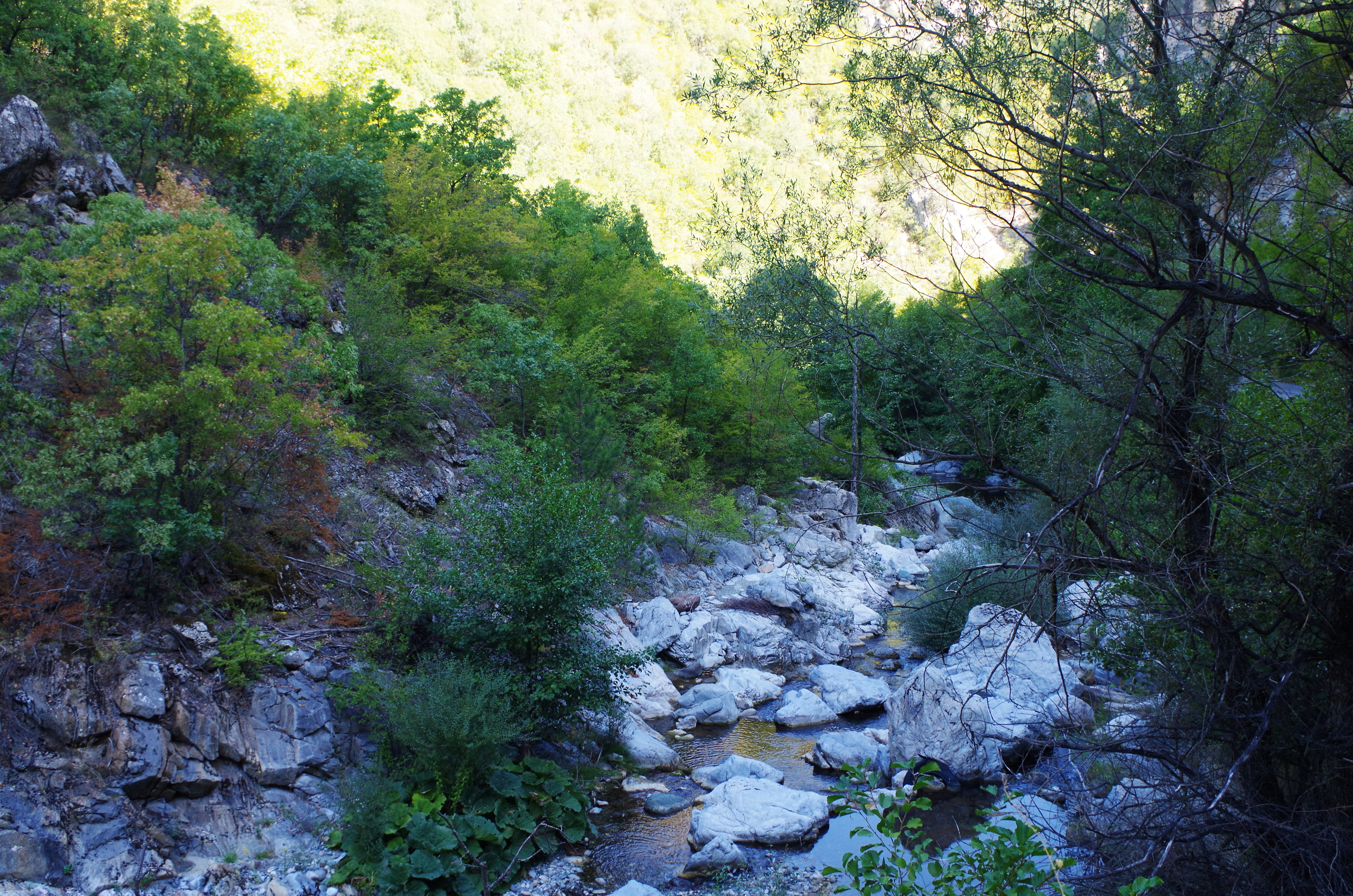 RIver Blaštica near the road that connects the villages of Mrežičko and Rožden